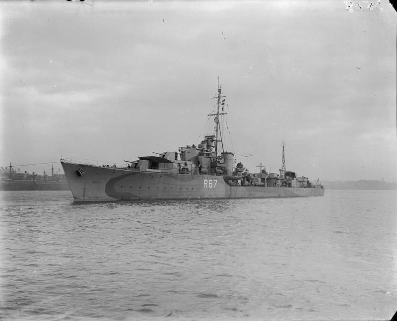 HMS Tyrian underway, c1943 (IWM FL 9359)